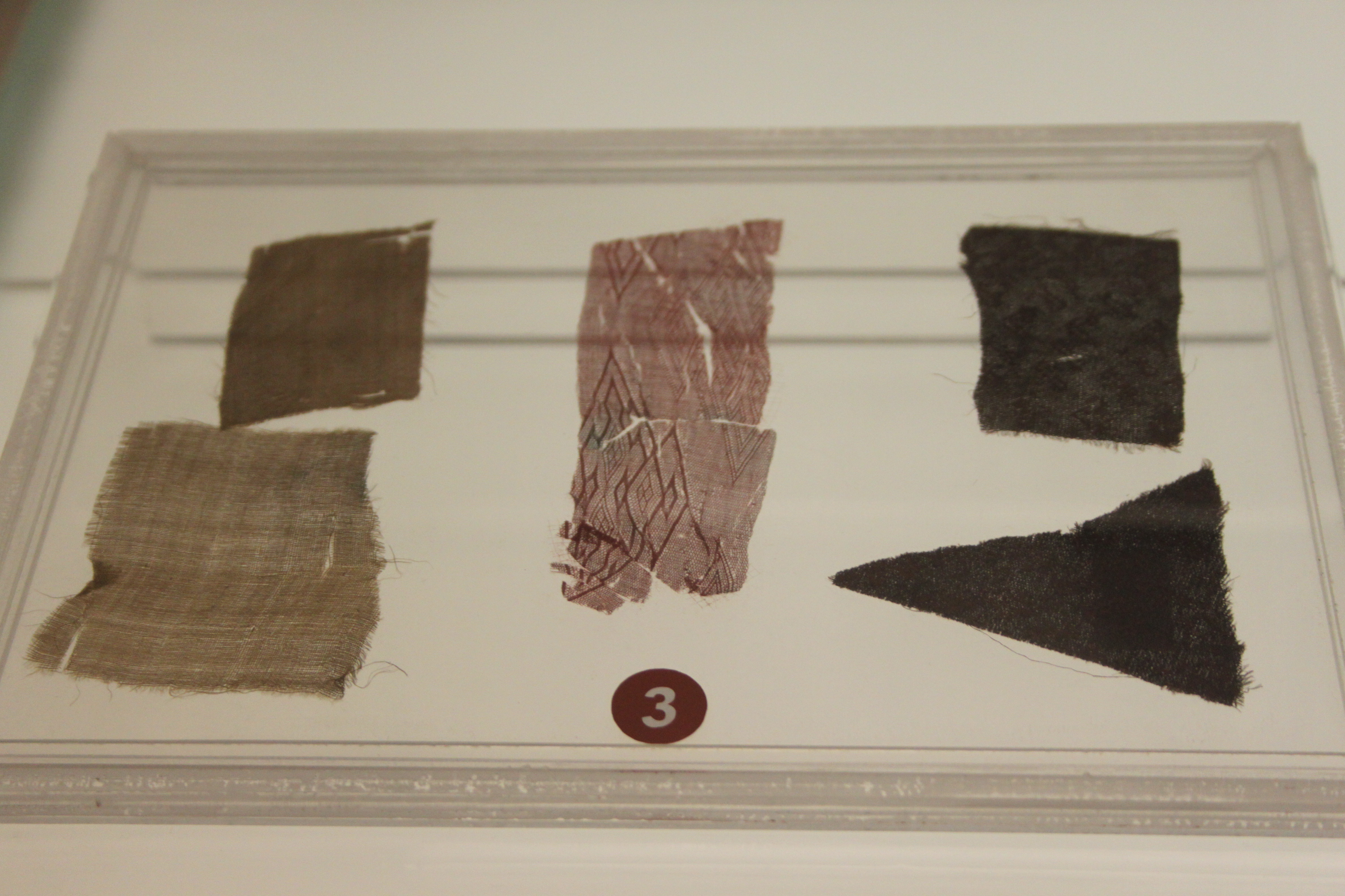 Mawangdui Han Tombs, Changsha, Hunan. Complete indexed photo collection at .